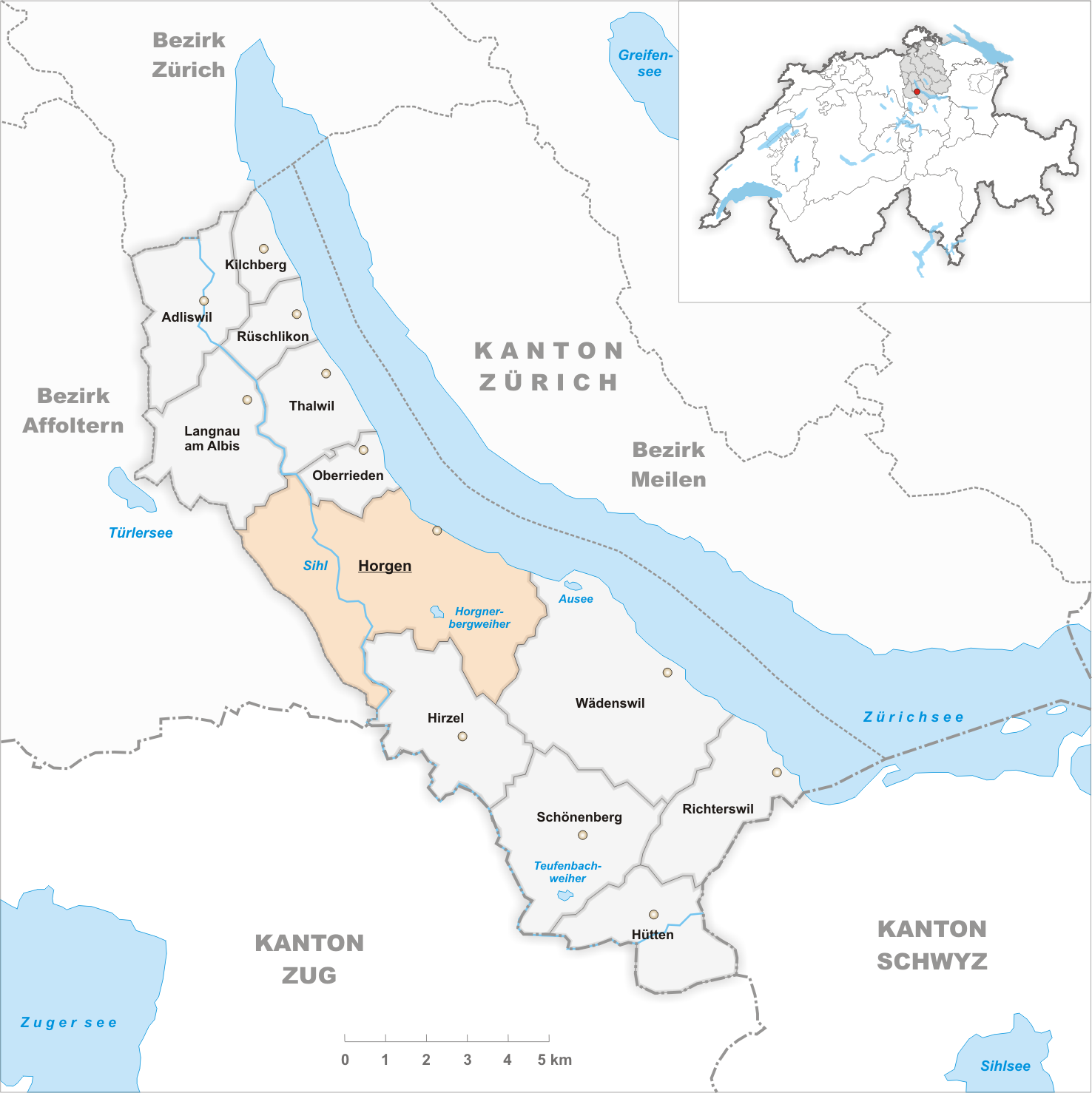 Municipality Horgen